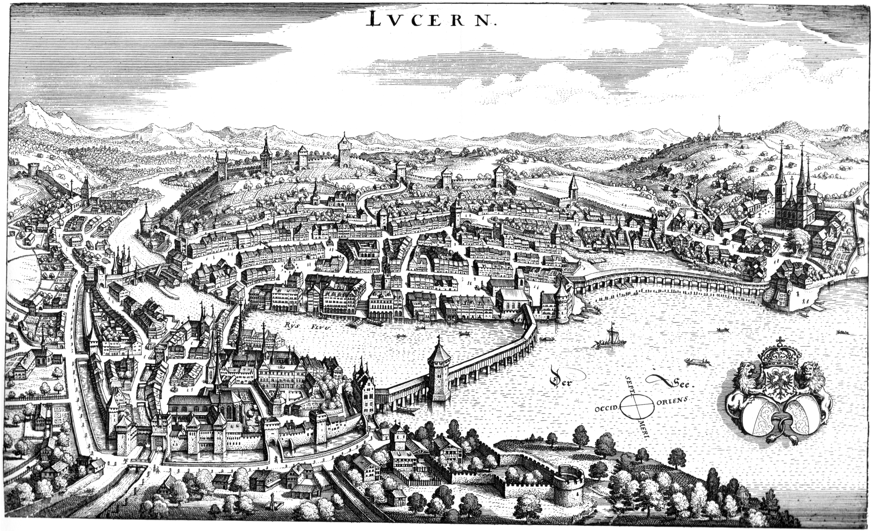 The City of Lucerne 1642